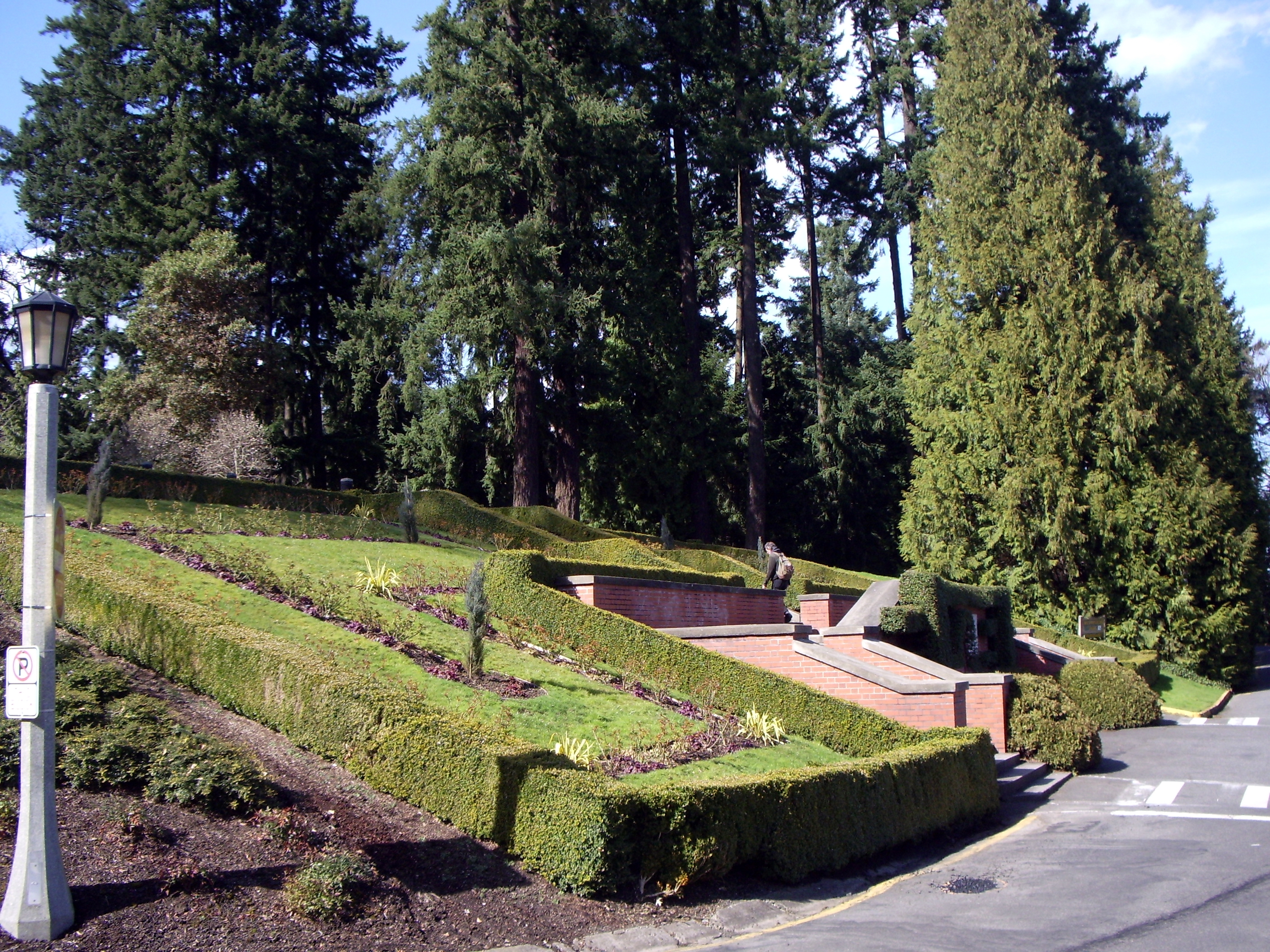 Washington Park, Portland main entrance, viewed from the SSE.